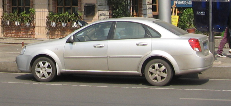 Buick Excelle sedan, rear view.